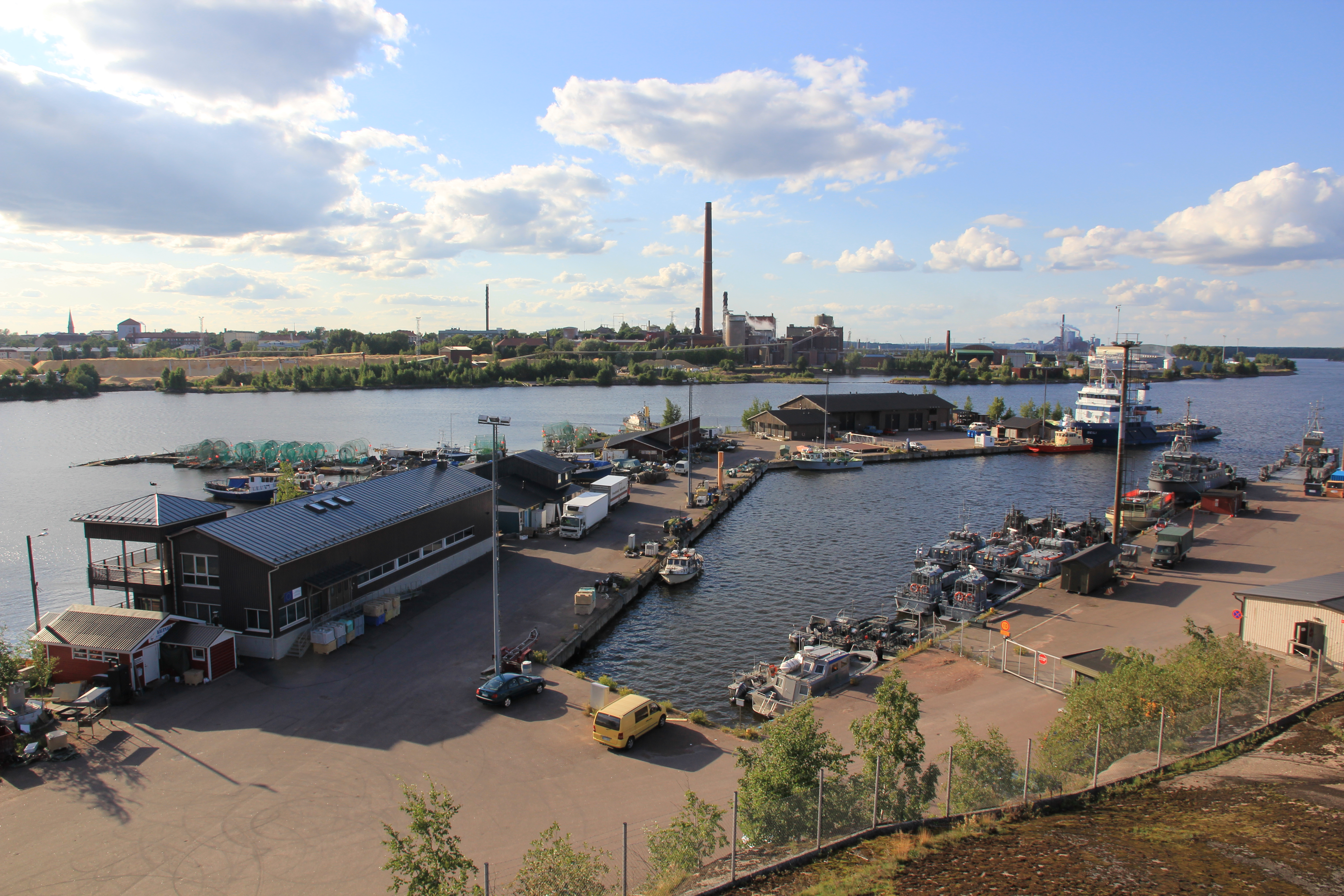 Kuusinen harbour in Kotka, photographed from Kuusinen observation tower.